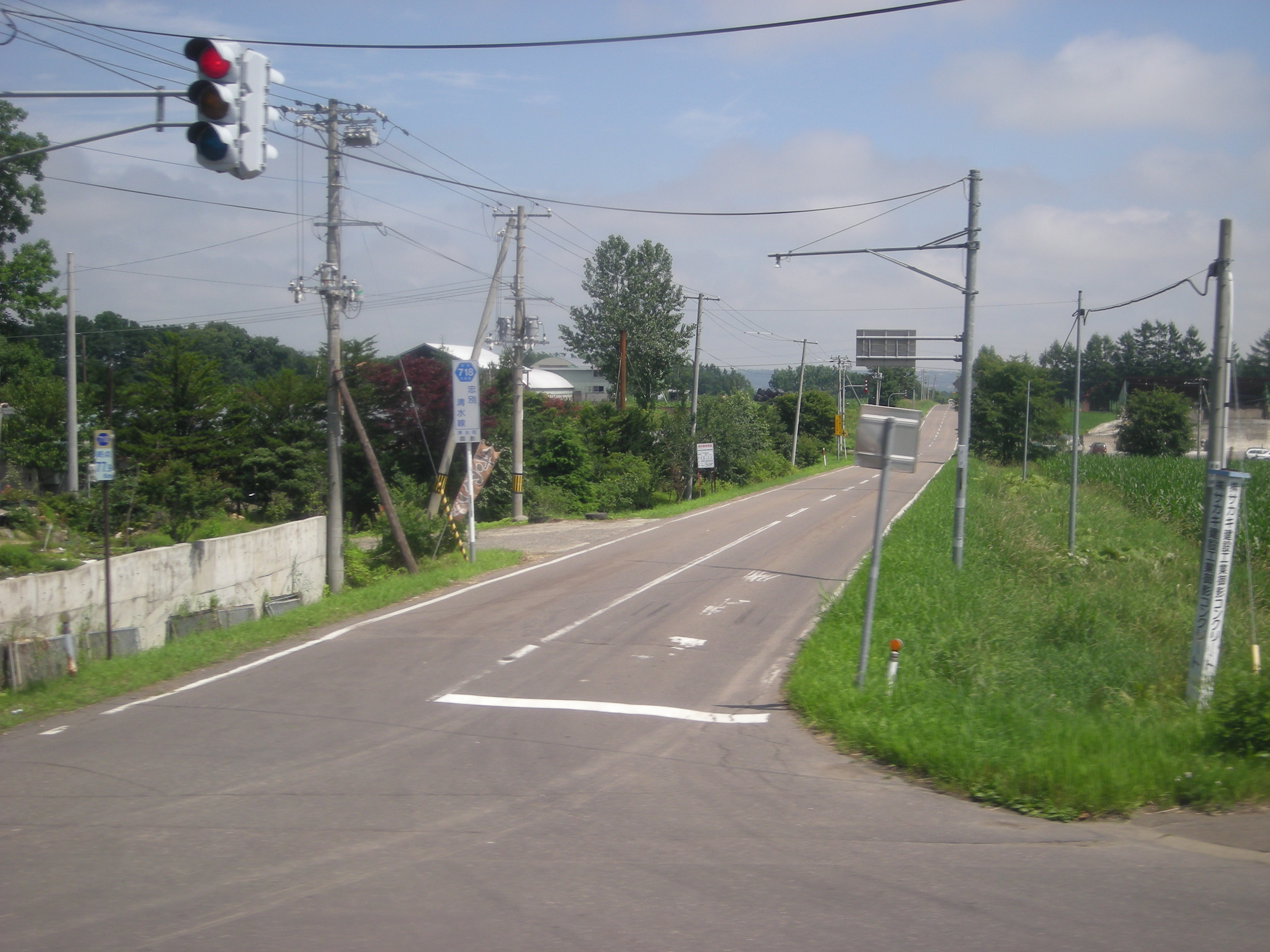 Hokkaido prefectural road route718, Shimizu, Hokkaido, Japan